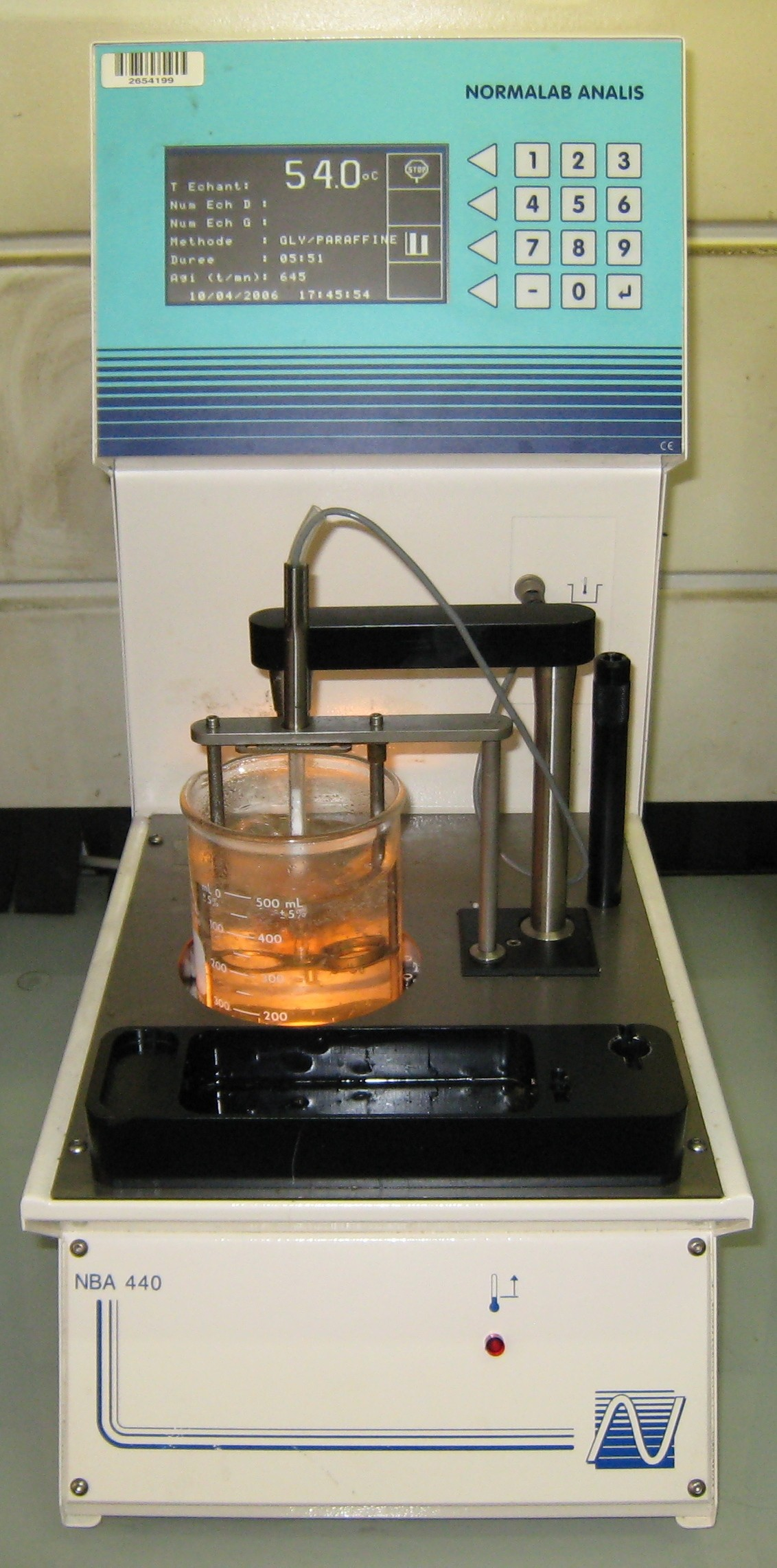 Softening point (ring and ball method). Automatic device. A ring filled with the sample is installed to the right of the support. The Pt100 sensor is to the left of the ring. A small propeller providing agitation is behind the sensor.